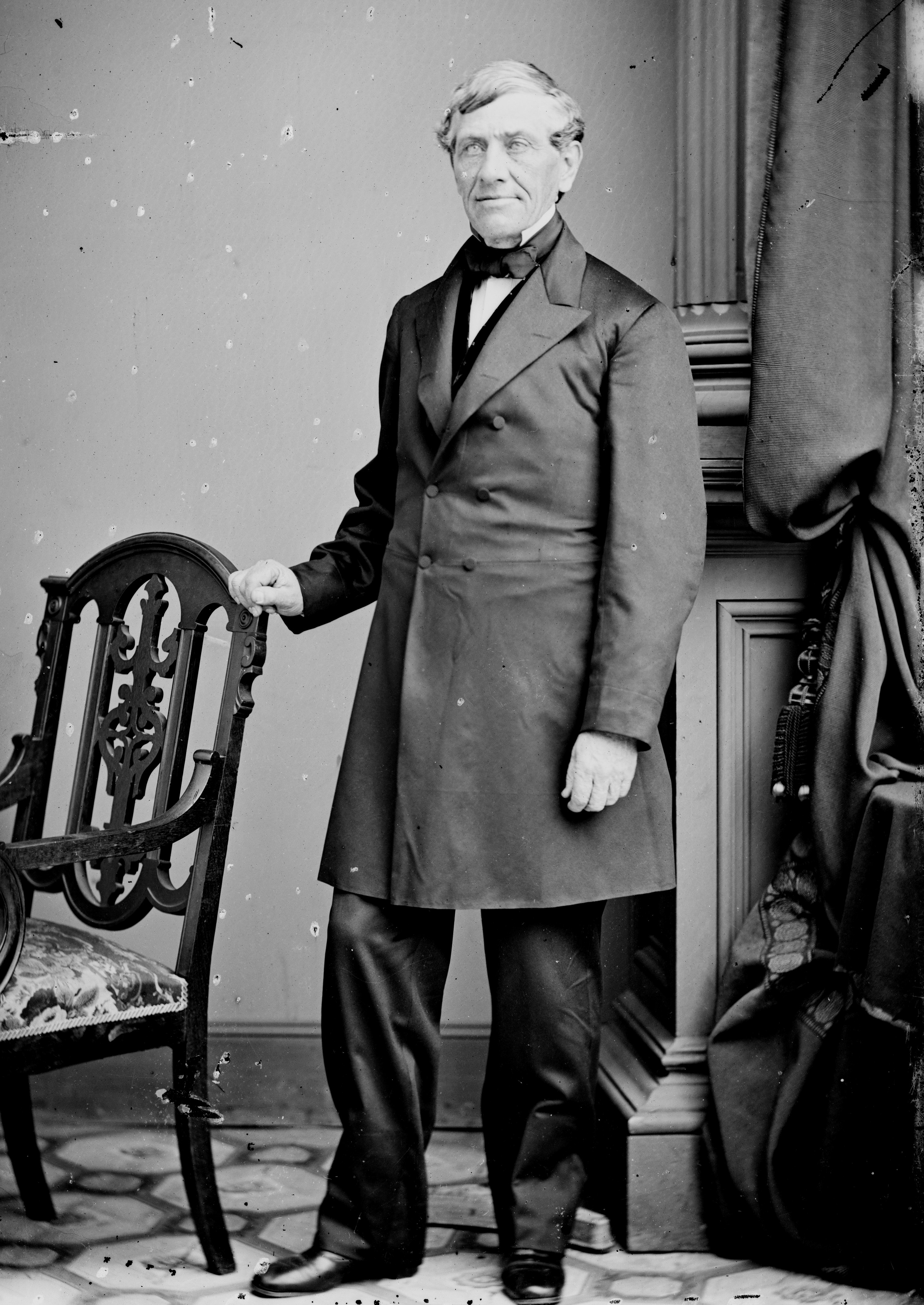 Augustus Williamson Bradford (1806-1881), former Governor of Maryland in the United States.